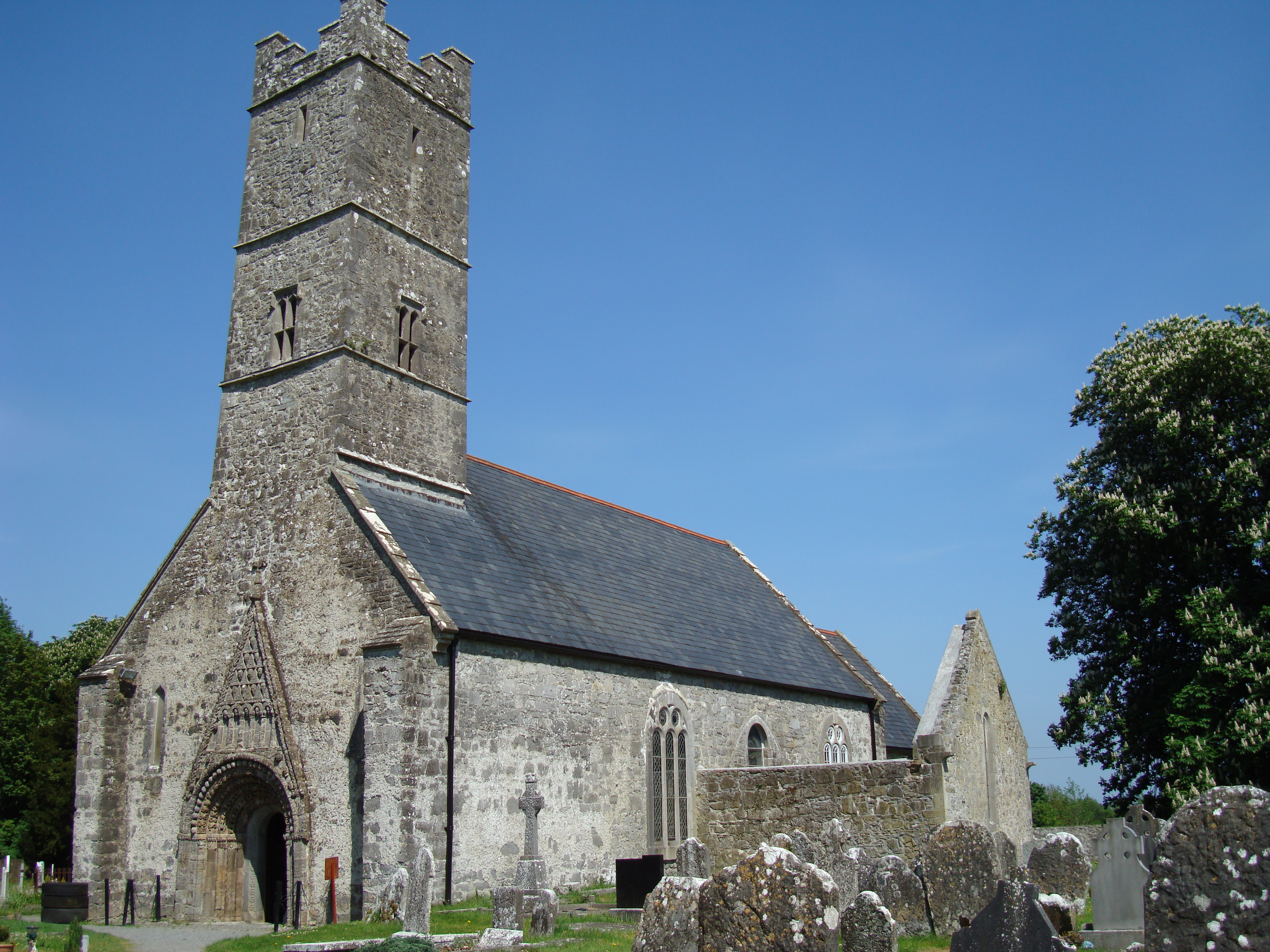 Photograph of St Brendan's Cathedral, Clonfert, Co. Galway, Republic of Ireland